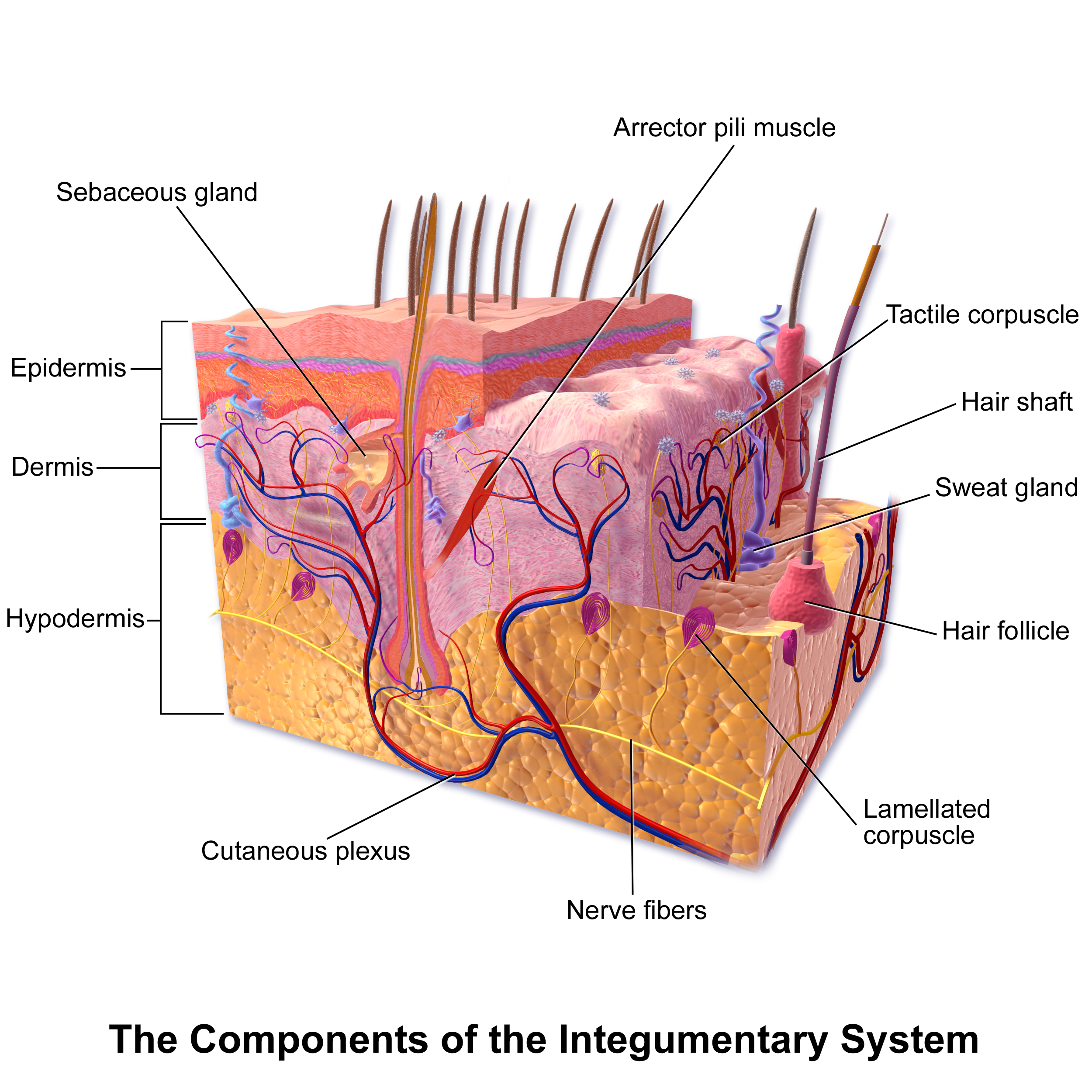 Integumentary System. See a full animation of this medical topic.